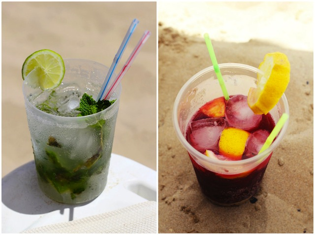 Alicante beach, Alicante, Spain.